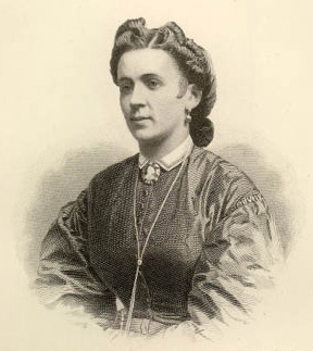 German opera singer Eleonore de Ahna (1838—1865)